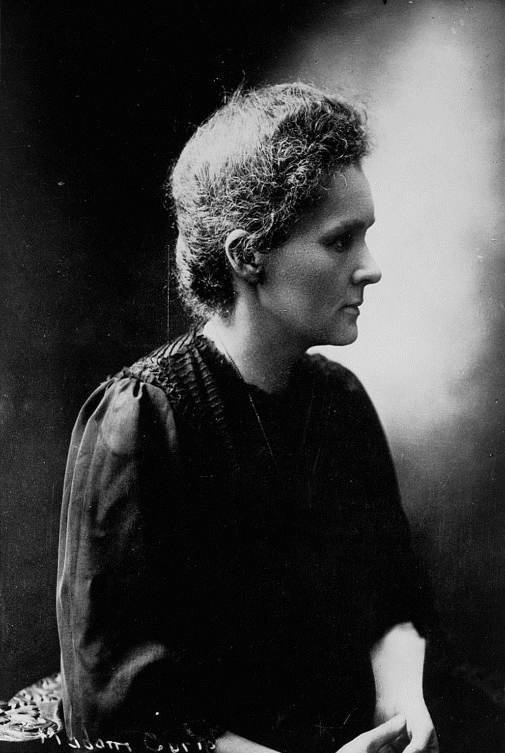 Marie Curie